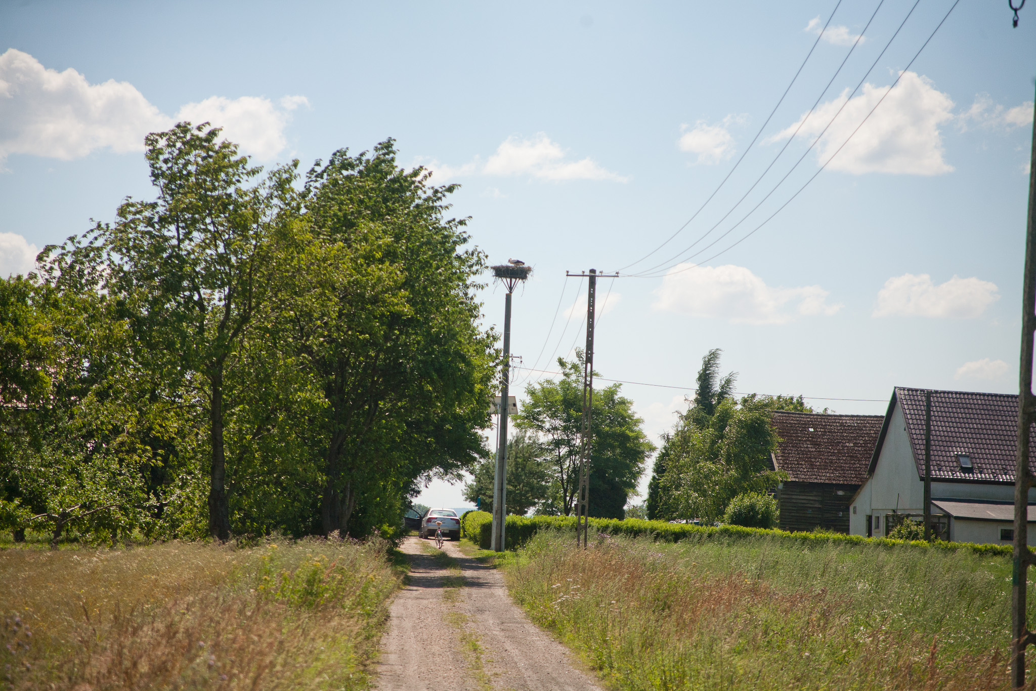 Stork nest in Poland